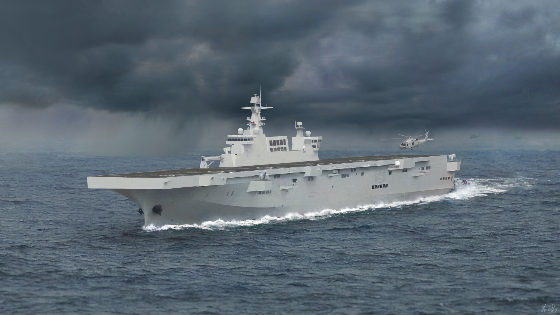 Artist impression of the Type 075 amphibious assault ship.